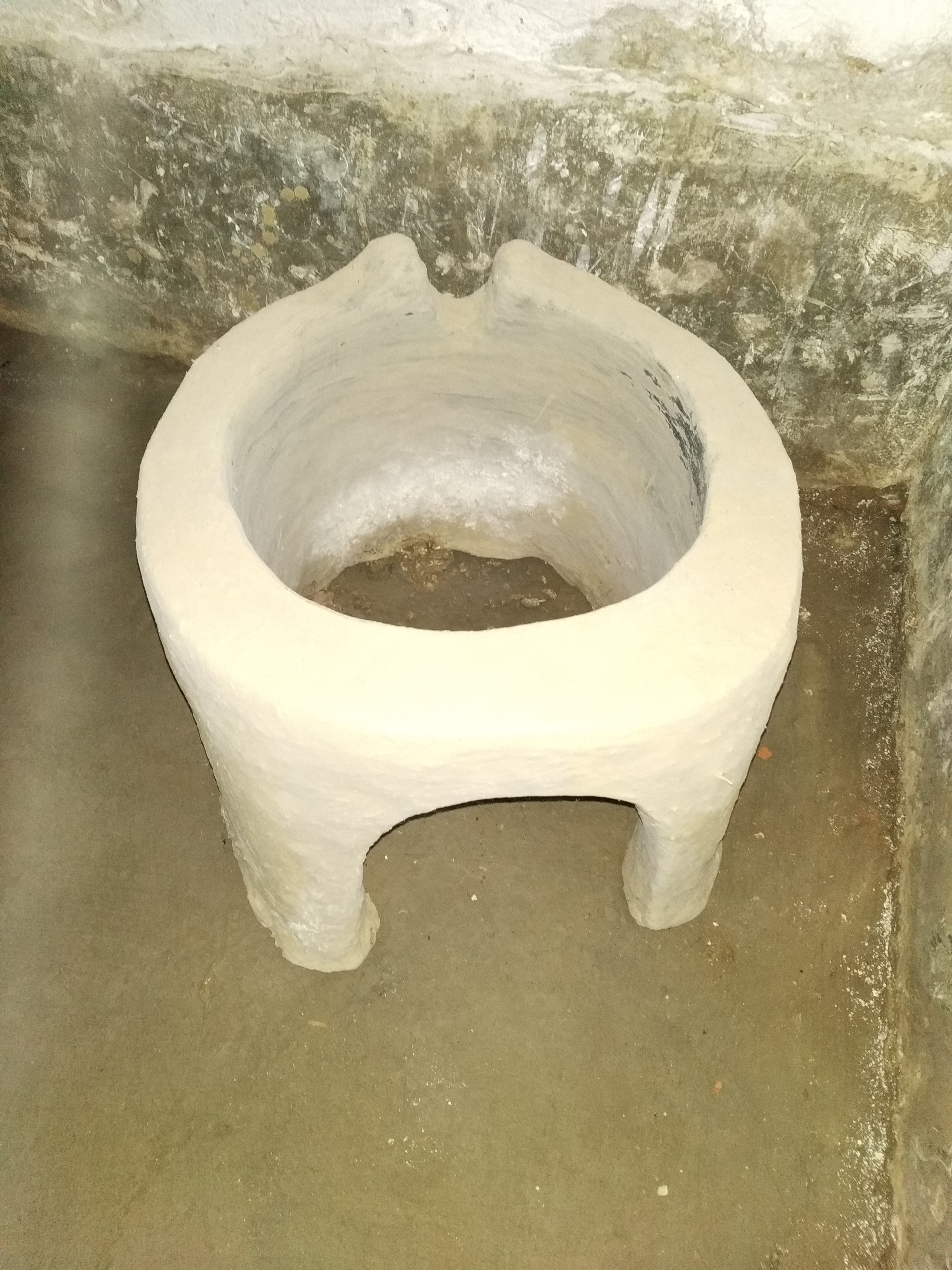 this is a image of handmade earth stove, in village .